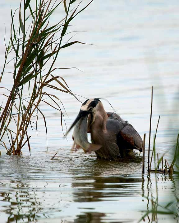 A Great Blue Heron (Ardea herodias) attempts to swallow a ~3 lb. (1.3 kg) fish. Taken at Quivira National Wildlife Refuge.